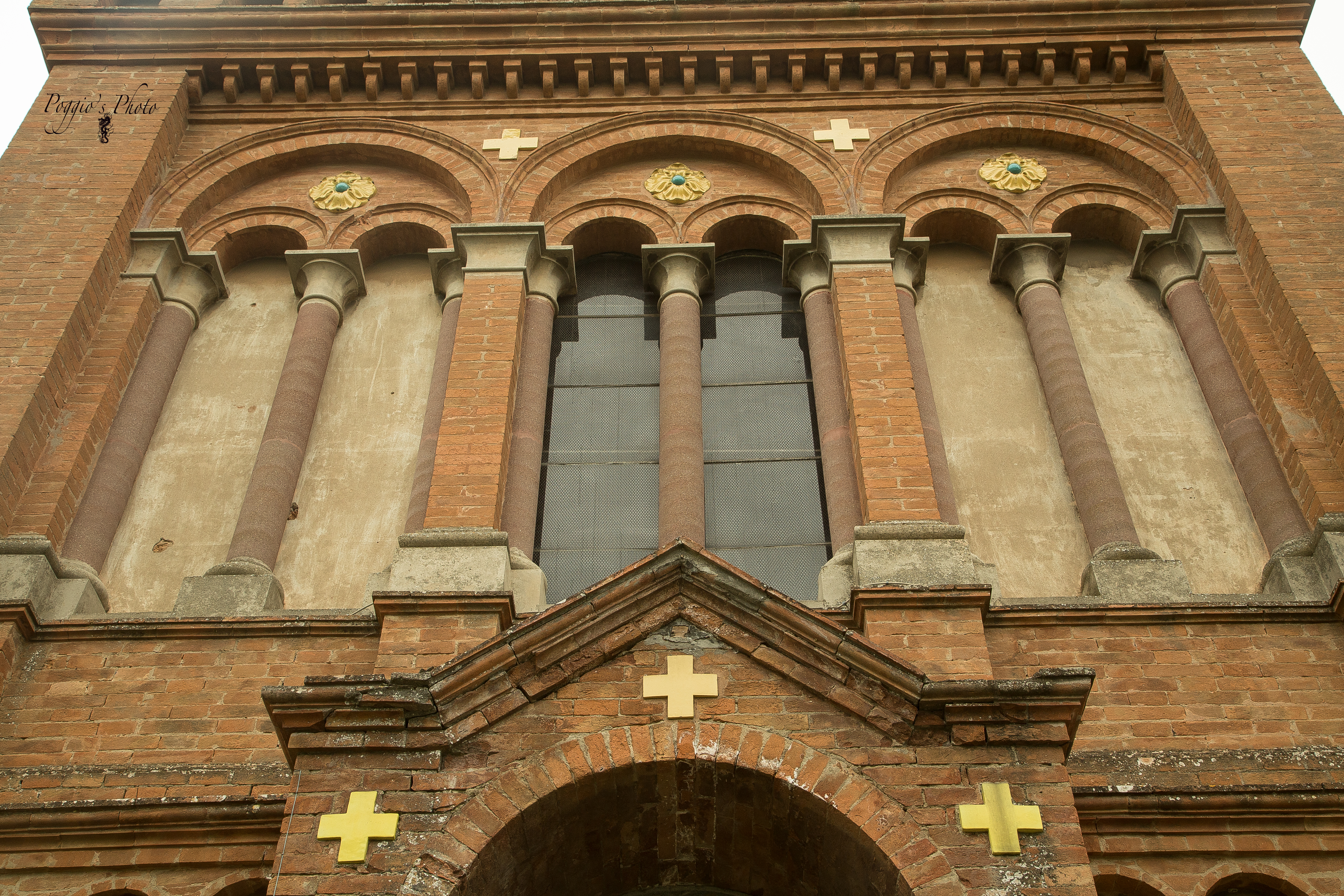 it is the facade's photo of Santa Margherita(photo made in STEFANO POGGIOLINI)